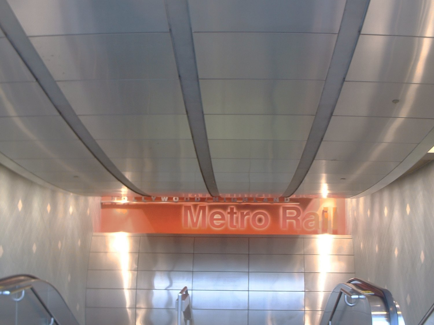 Entrance to Hollywood-Highland station on Metro Red Line (Los Angeles County Metro Rail)